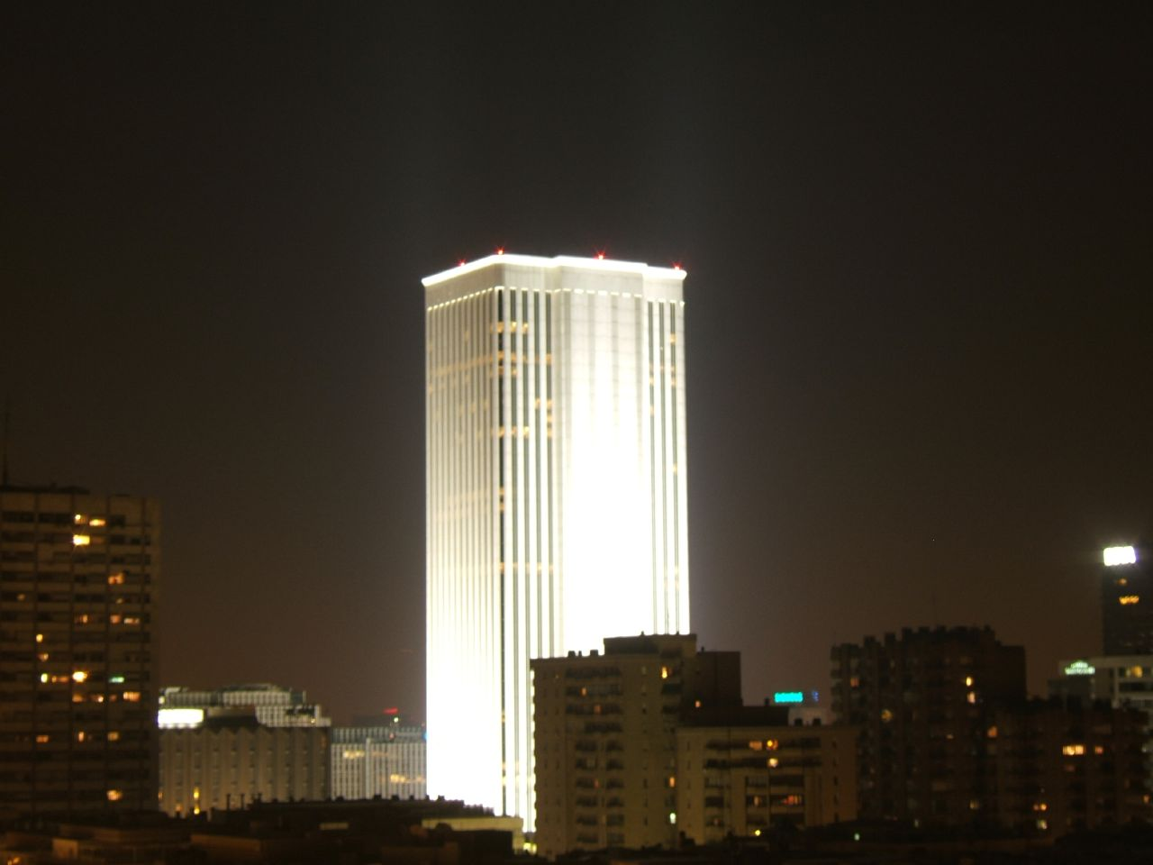 Night view of Torre Picasso (Madrid, Spain, 1982–1988). Architect: Minoru Yamasaki (1912–1986).